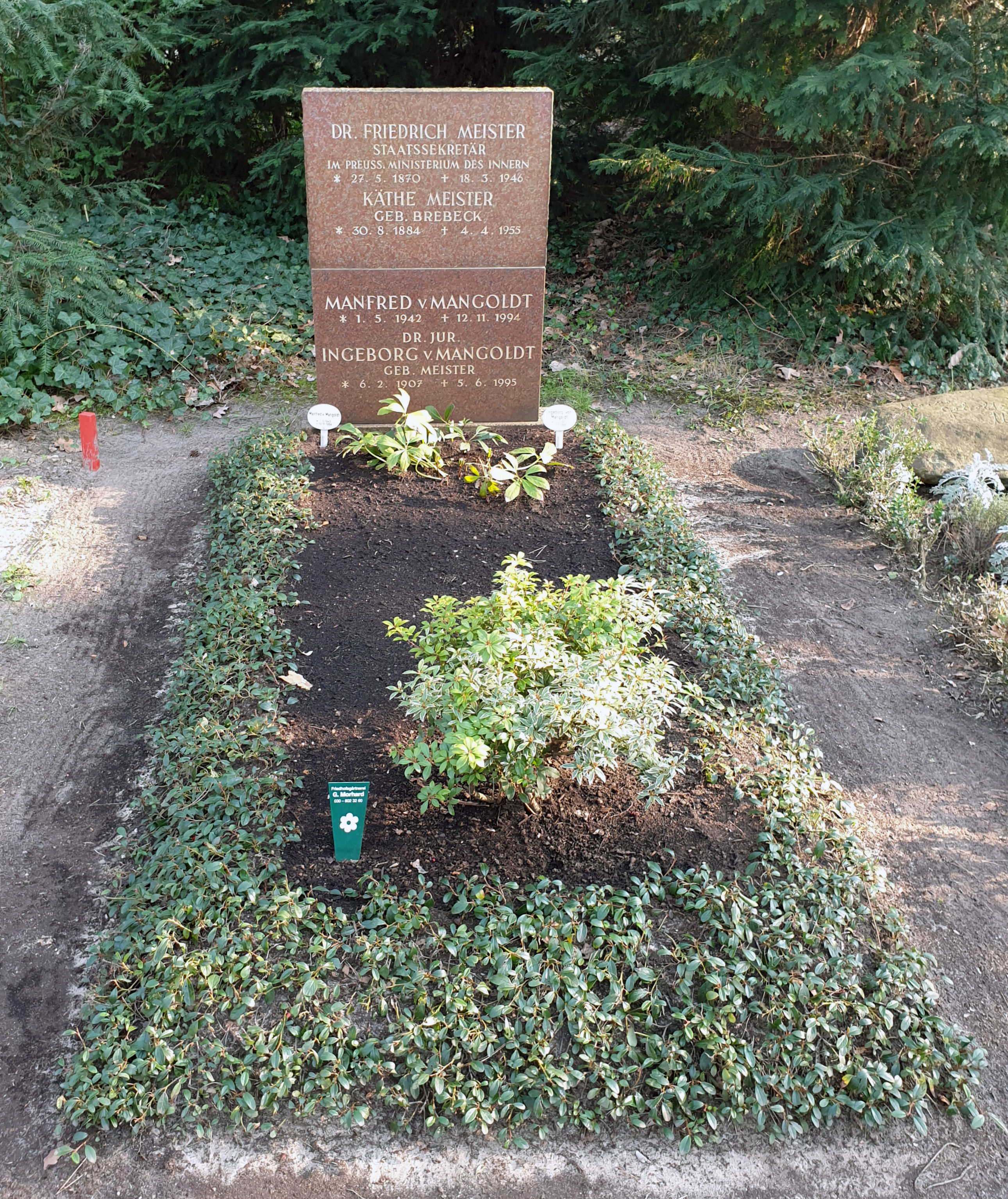 Grave, Friedrich Wilhelm Meister, Potsdamer Chaussee 75, Berlin-Nikolassee, Germany